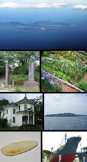 Ishinomaki montage